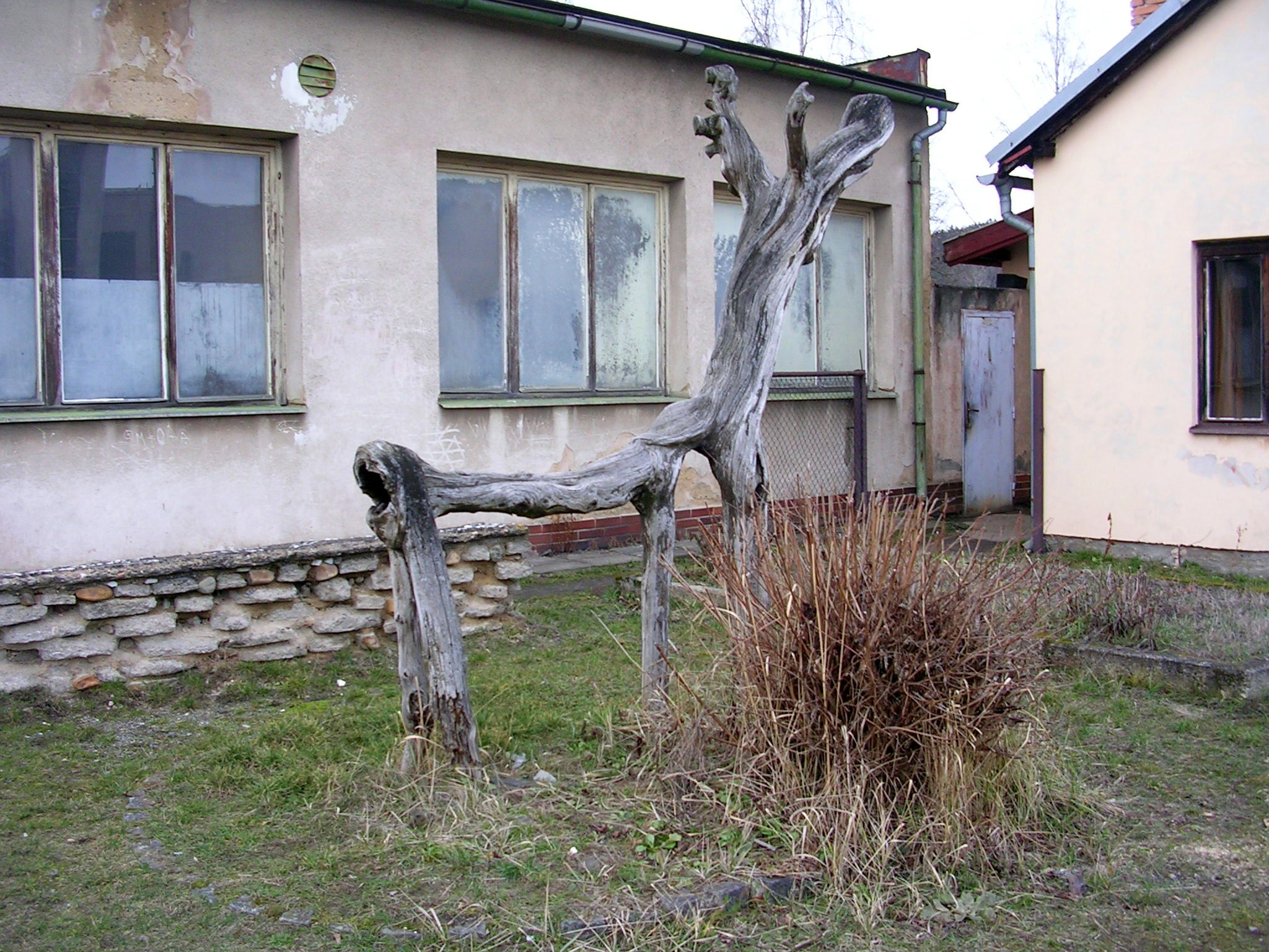 Týnec nad Sázavou, the Czech Republic. The train station "Týnec nad Sázavou".